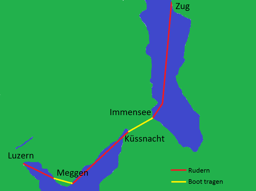 New Map of Red Bull X-Row